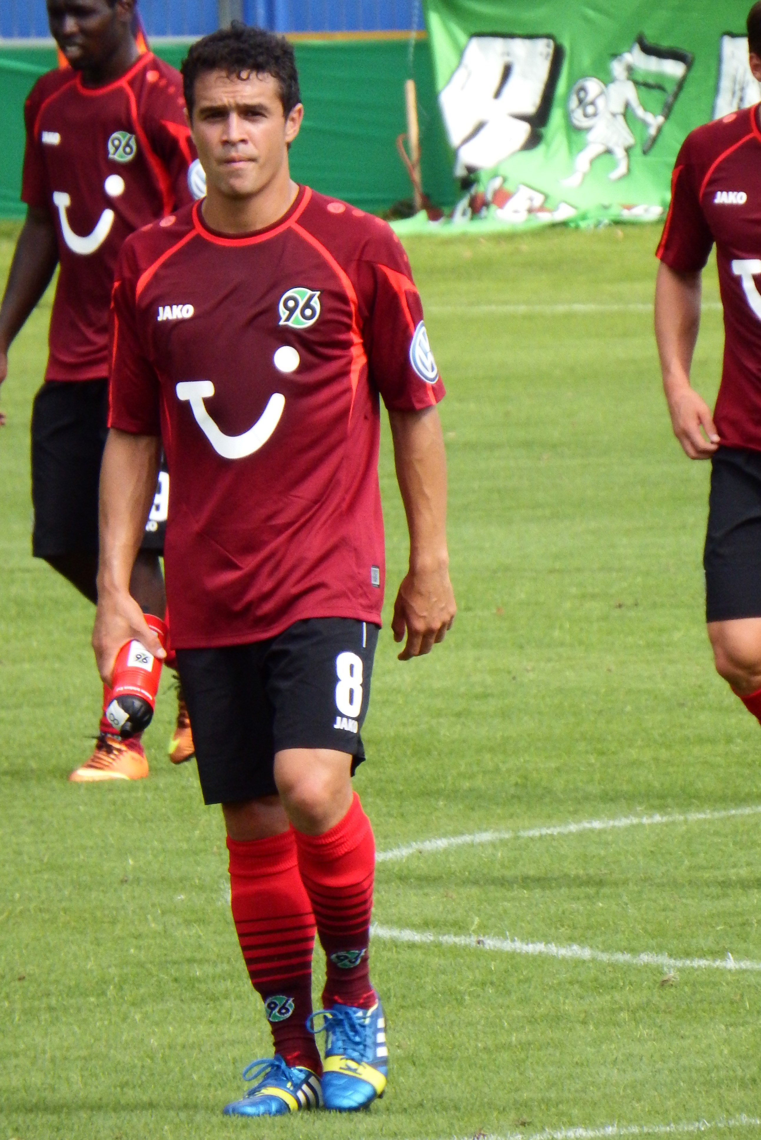 Manuel Schmiedebach as Player of Hannover 96